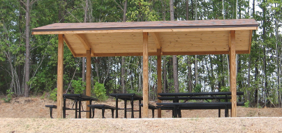 Northeast Park Picnic shelter